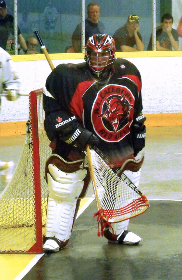 These images of Ontario Junior B Lacrosse Action action during the 2014 season are taken by Devan Mighton.